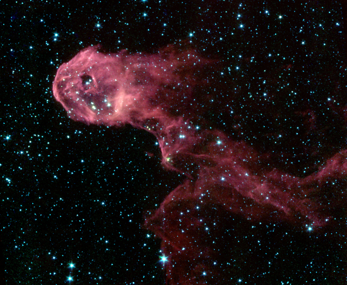 This NASA Spitzer Space Telescope image reveals a glowing stellar nursery embedded within the Elephant's Trunk Nebula, an elongated dark globule within the emission nebula IC 1396 in the constellation of Cepheus. Located at a distance of 2,450 light-years, the globule is a condensation of dense gas that is barely surviving the strong ionizing radiation from a nearby massive star. The globule is being compressed by the surrounding ionized gas. The Spitzer Space Telescope pierces through the obscuration to reveal the birth of new protostars, or embryonic stars, and previously unseen young stars. The infrared image was obtained by Spitzer's infrared array camera and is a four-color composite of invisible light, showing emissions from wavelengths of 3.6 microns (blue), 4.5 microns (green), 5.8 microns (orange) and 8.0 microns (red). The filamentary appearance of the globule results from the sculpting effects of competing physical processes. The winds from a massive star, located to the left of the image, produce a dense circular rim comprising the 'head' of the globule and a swept-back tail of gas. A pair of young stars (LkHa 349 and LkHa 349c) that formed from the dense gas has cleared a spherical cavity within the globule head. While one of these stars is significantly fainter than the other in visible-light images, they are of comparable brightness in the infrared Spitzer image. This implies the presence of a thick and dusty disc around LkHa 349c. Such circumstellar discs are the precursors of planetary systems. They are much thicker in the early stages of stellar formation when the placental planet-forming material (gas and dust) is still present.